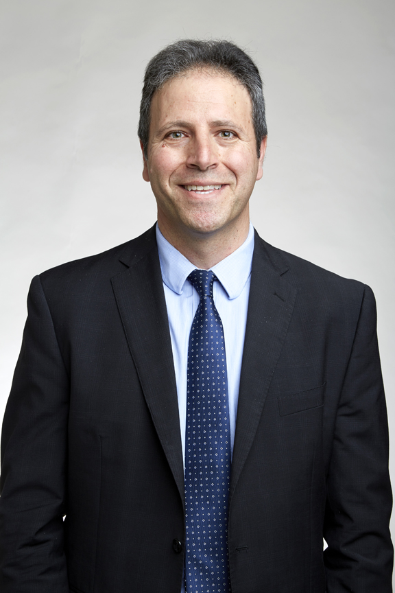 Francesco Caruso is Melbourne Laureate Professor and National Health and Medical Research Council Senior Principal Research Fellow in the School of Chemical and Biomolecular Engineering at the University of Melbourne, Australia Attribution: The Royal Society